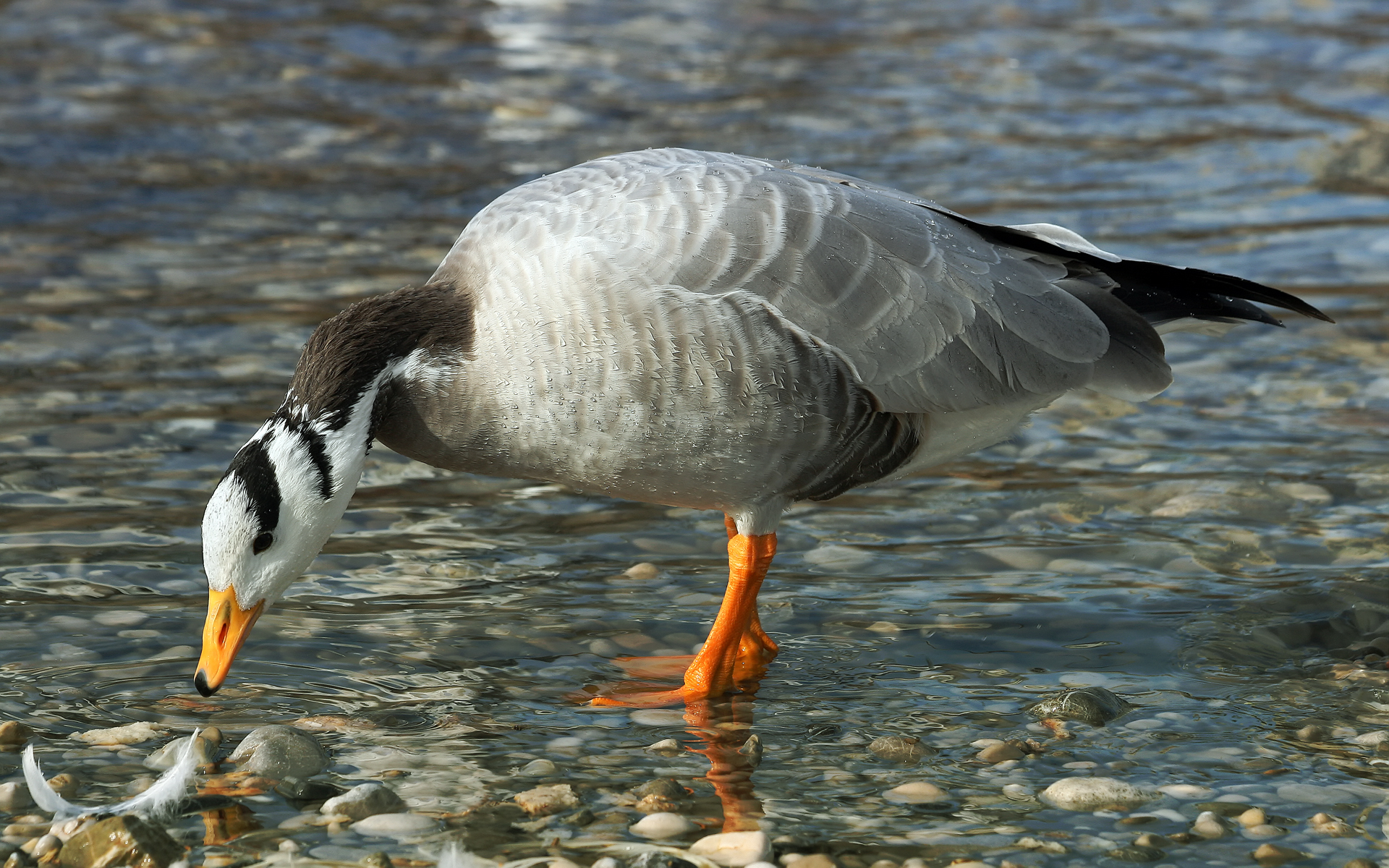 The Anserinae is a subfamily in the waterfowl family Anatidae. It includes the swans and true geese. As shown (Anser indictus)